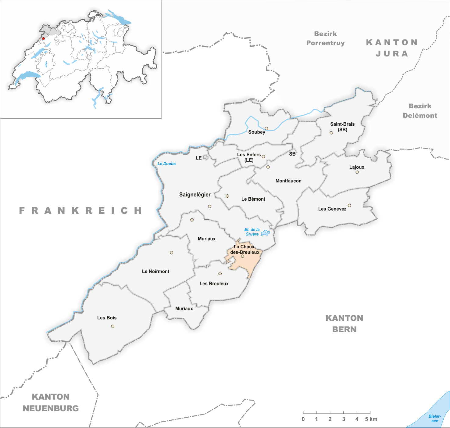 Municipality La Chaux-des-Breuleux